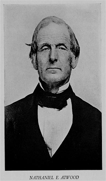 Nathaniel Atwood